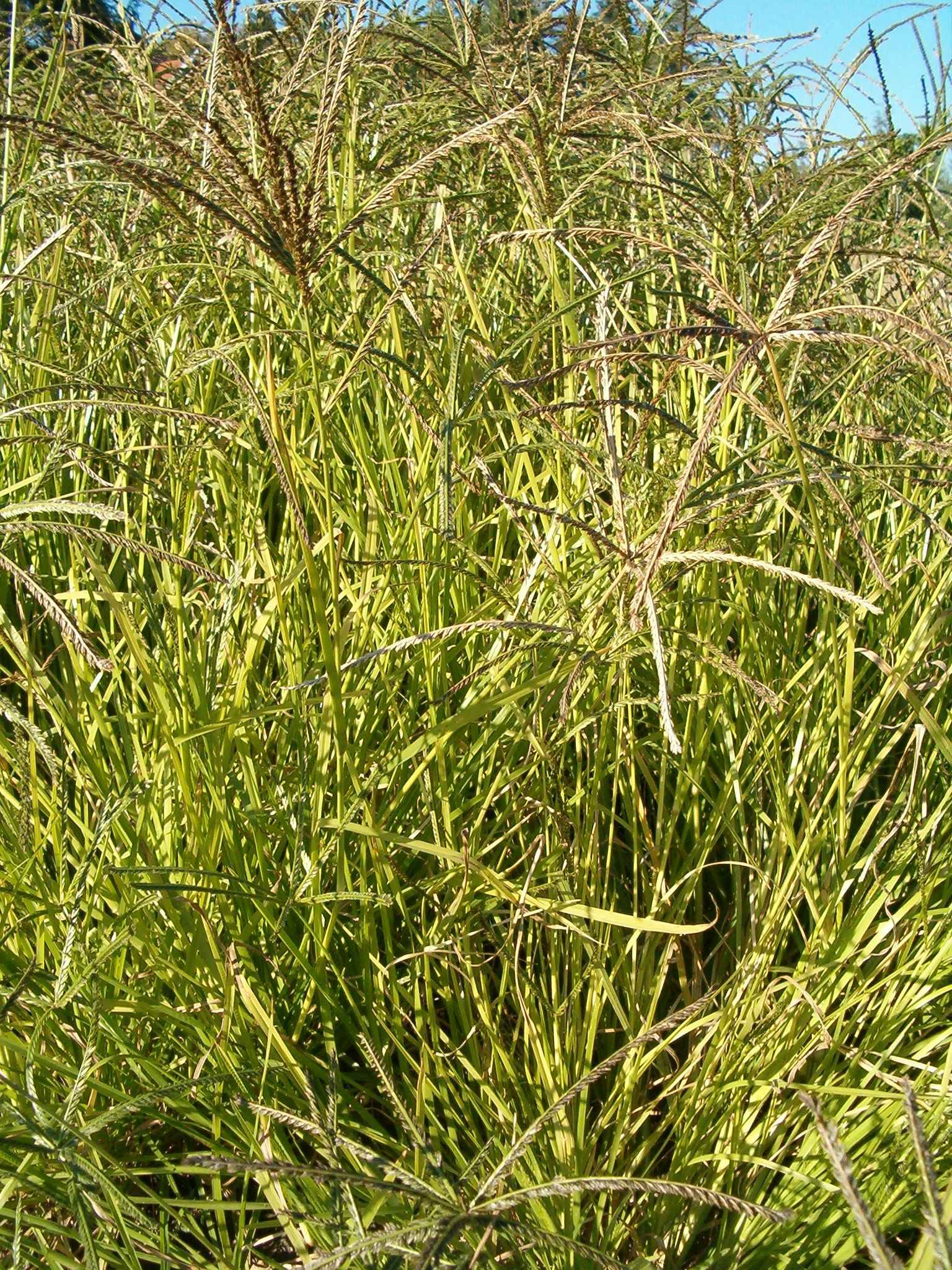 Species Eleusine indica Familia Poaceae Location: Botanical Gardens Berlin Habitus